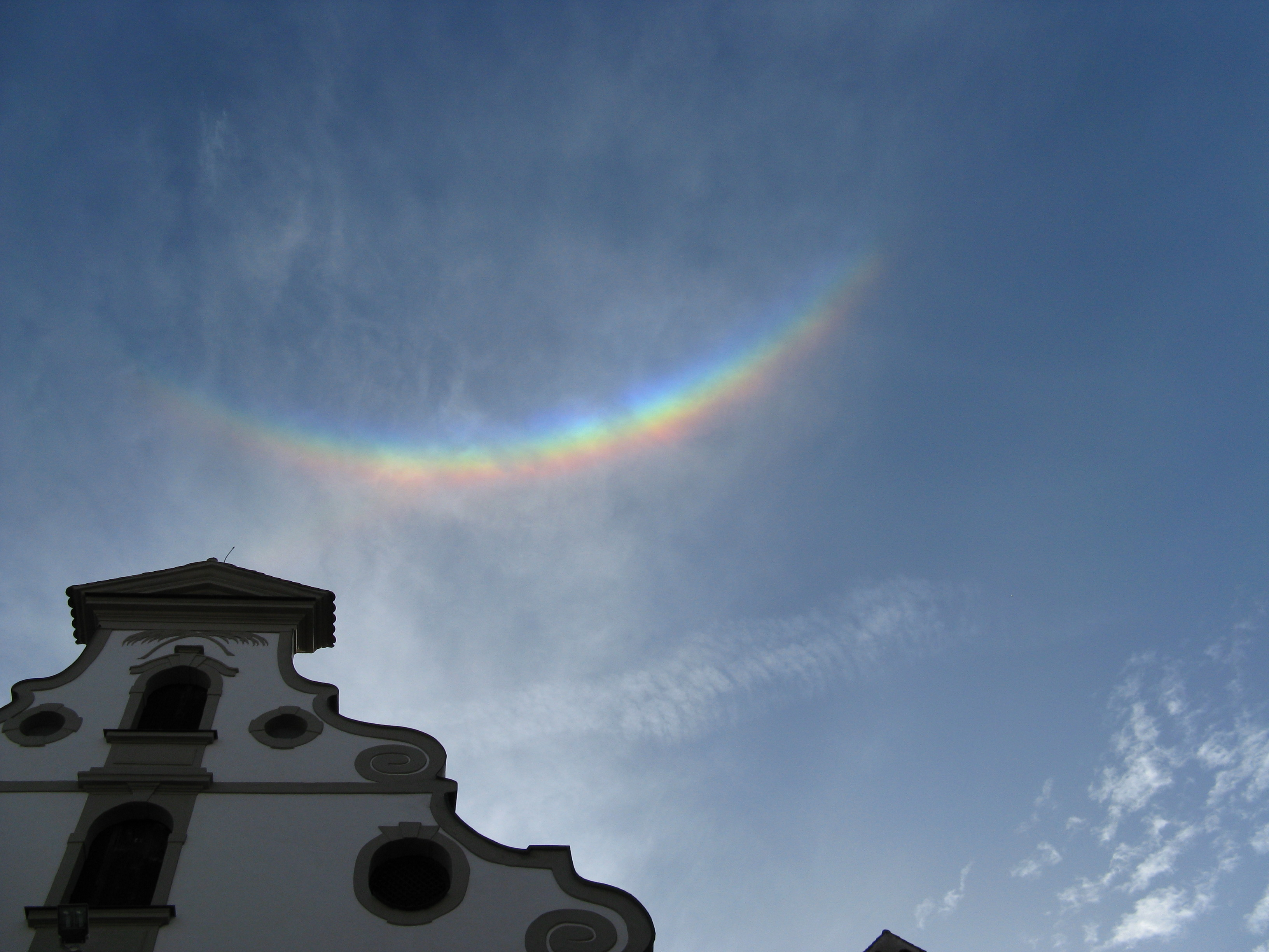 Circumzenital arc